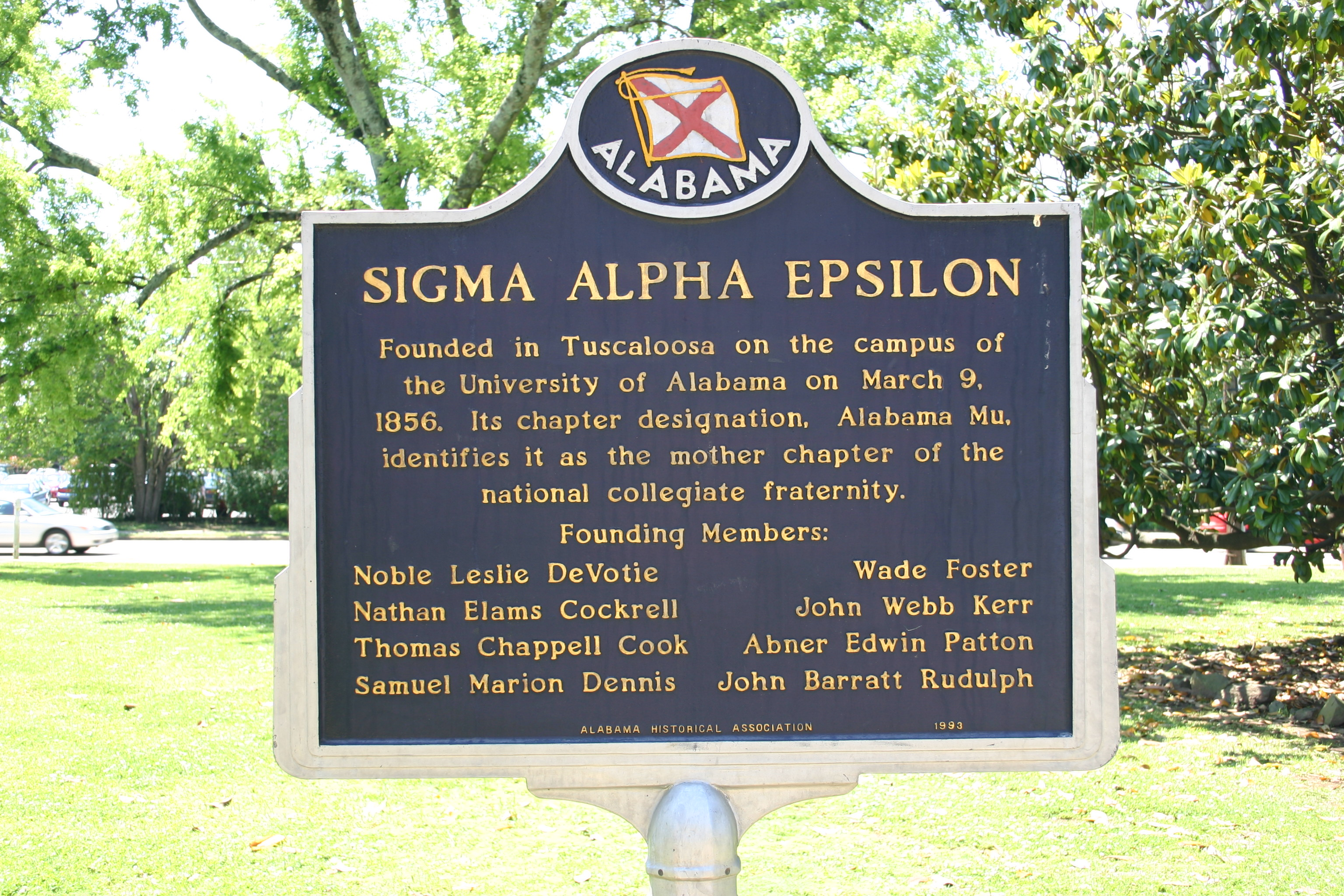 The Alabama historic marker that commemorates the founding of the first chapter of Sigma Alpha Epsilon